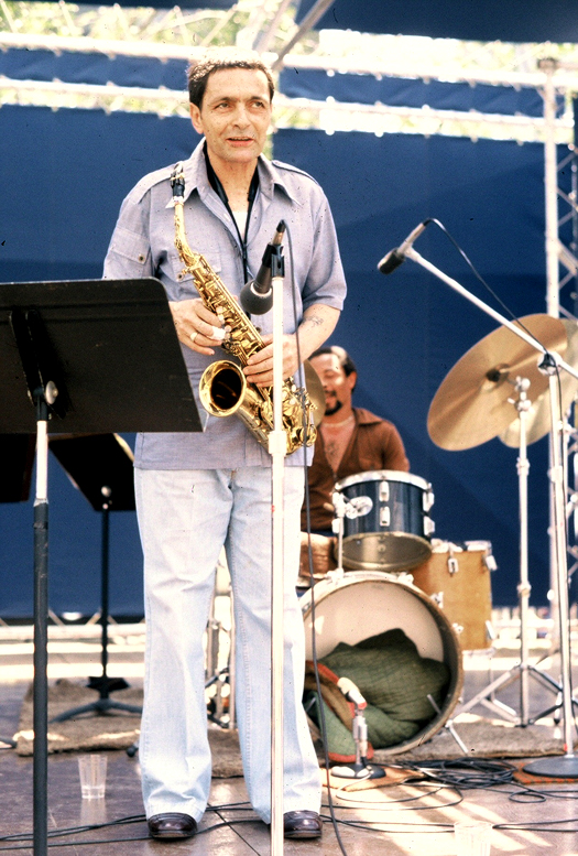 description: Art Pepper in 1979 photographer: Nathan Callahan photographer_location: Southern California, USA photographer_url: [1] flickr_url: [2] taken:July 18, 1979